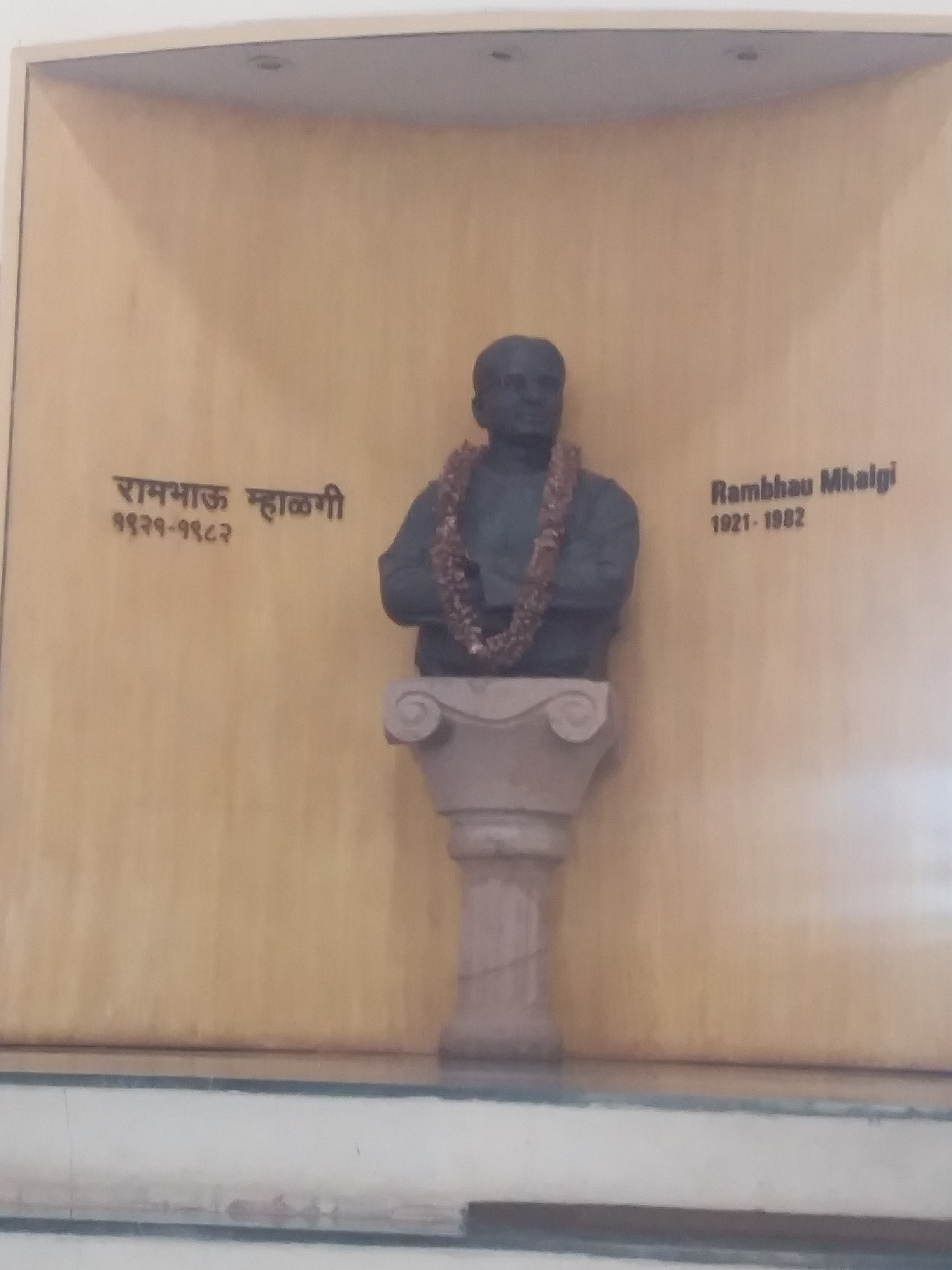 Statue of Rambhau Mhalgi at Rambhau Mhalgi Prabodhini, Uttan, Mumbai,India